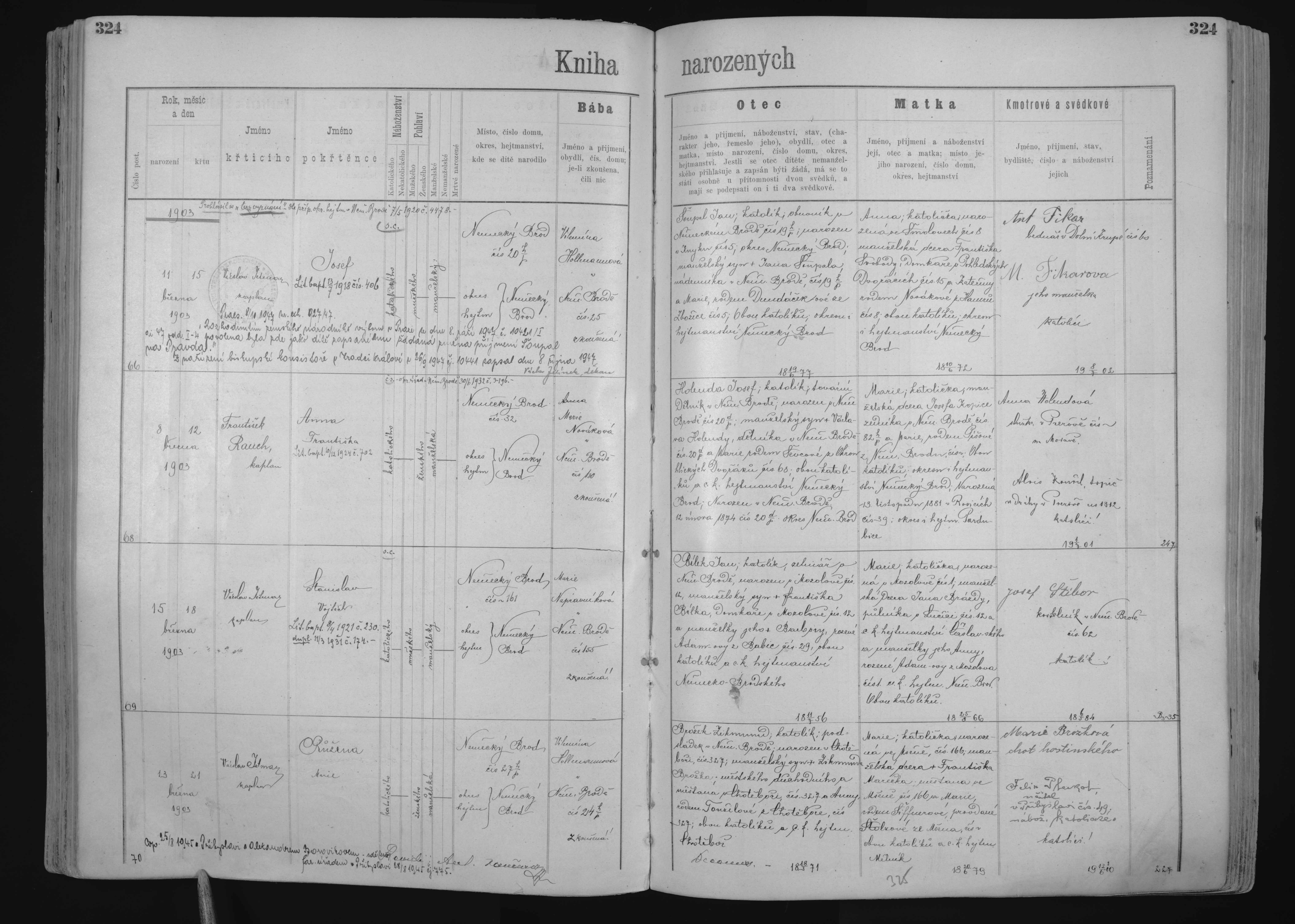 Birth record of Josef Šoupal (1903-1959), murderer of Alois Rašín (1867-1923)